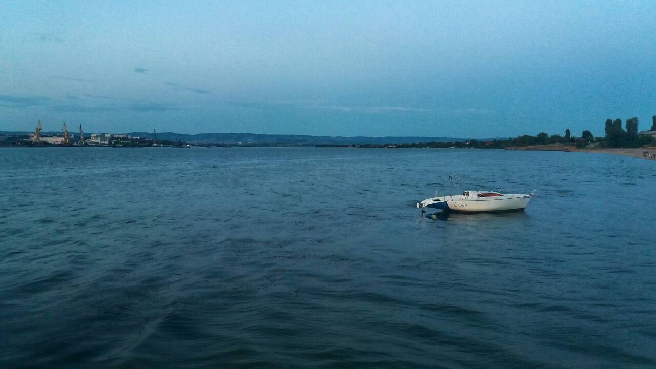 The Dunabe is the second lorgest river in Europe. A long distance of about 285 km. The Dunabe flows trough several cities and flows into the Black sea.